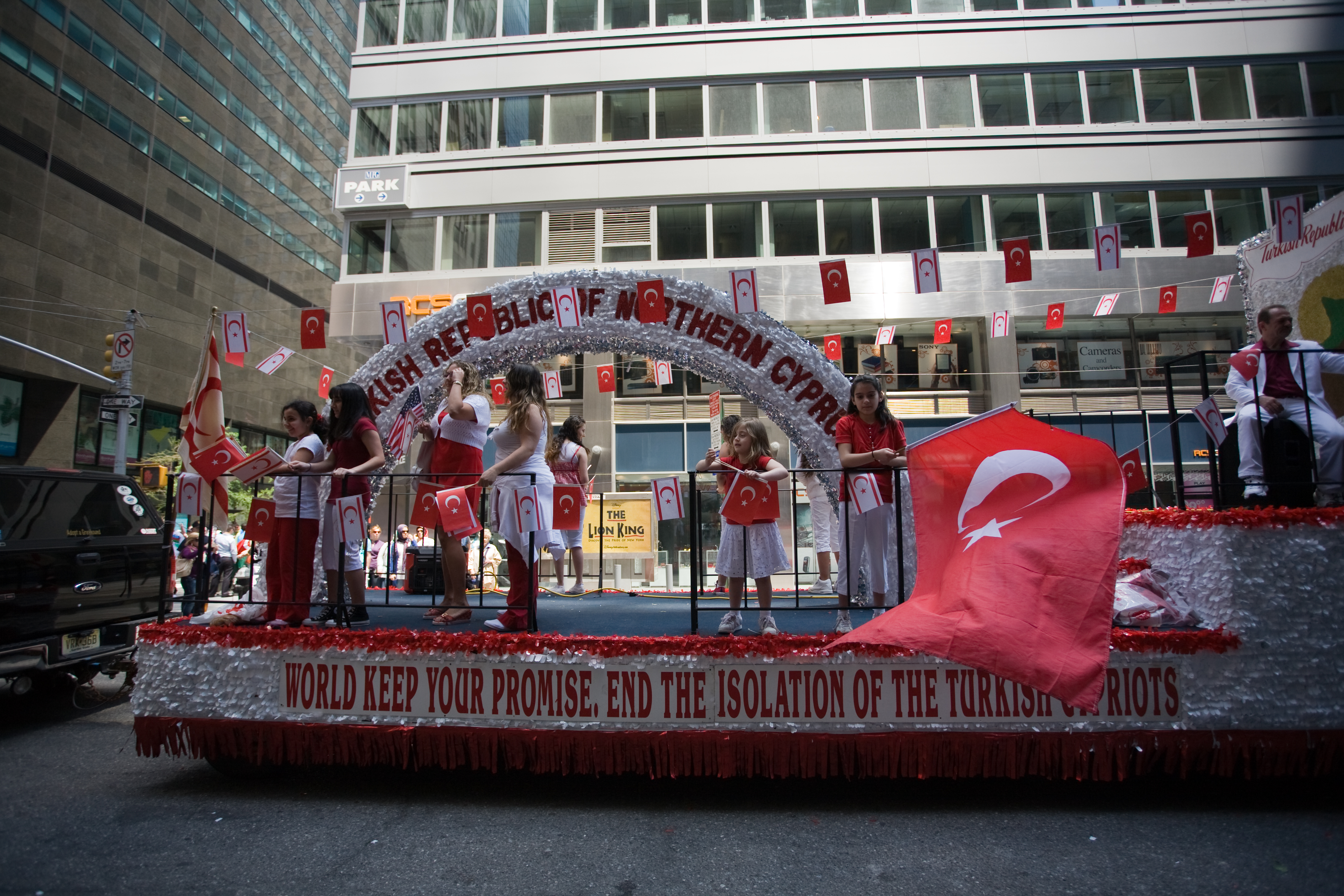 Turkish Parade, New York 2009. Turkish Cypriots supporting the Turkish Republic of Northern Cyprus.